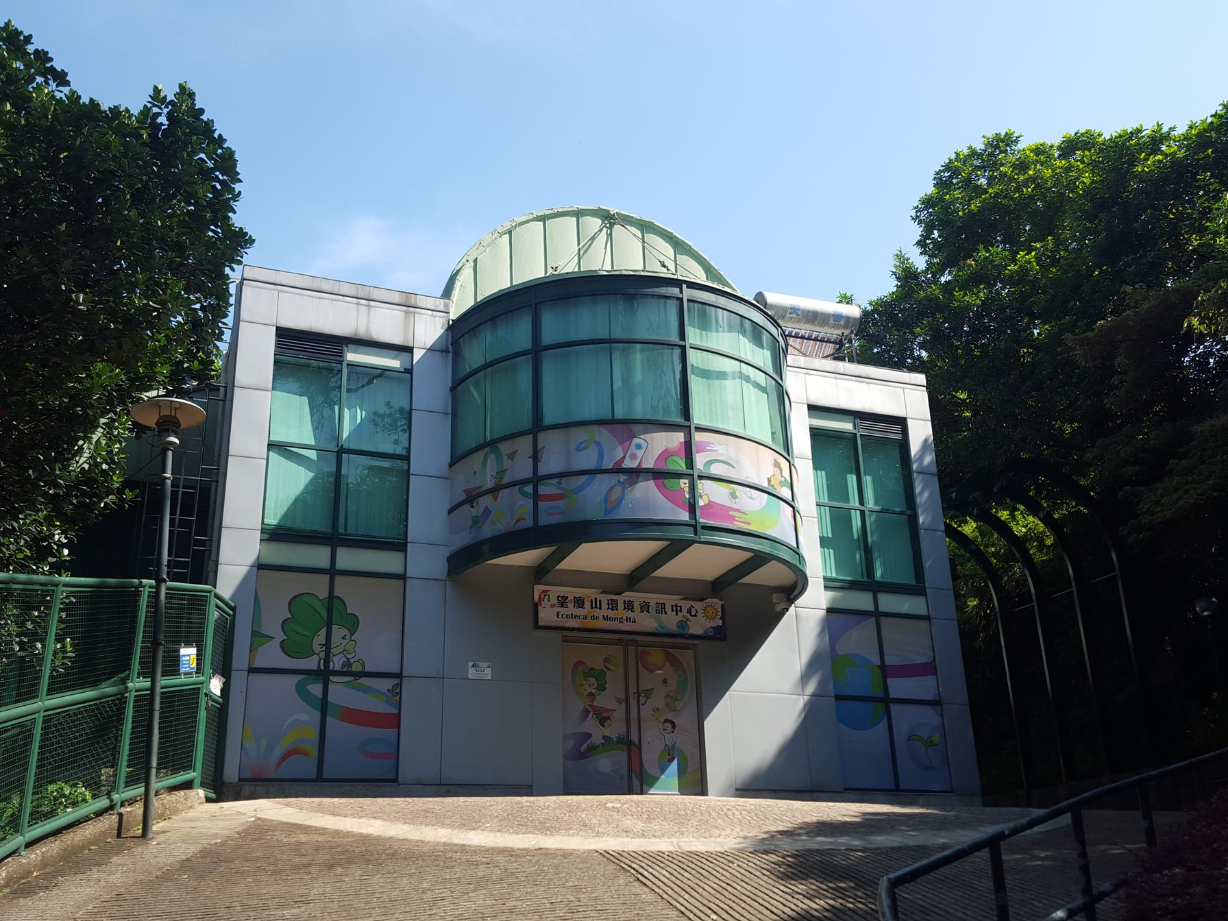 Mong Ha Hill Municipal Park